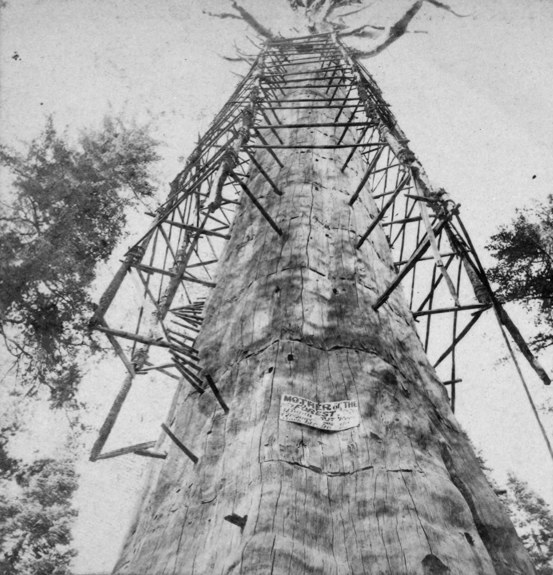 The Mother of the Forest ; 305 feet high ; 63 feet circumference - near view, Calaveras County. Left frame of the stereoscopic view.